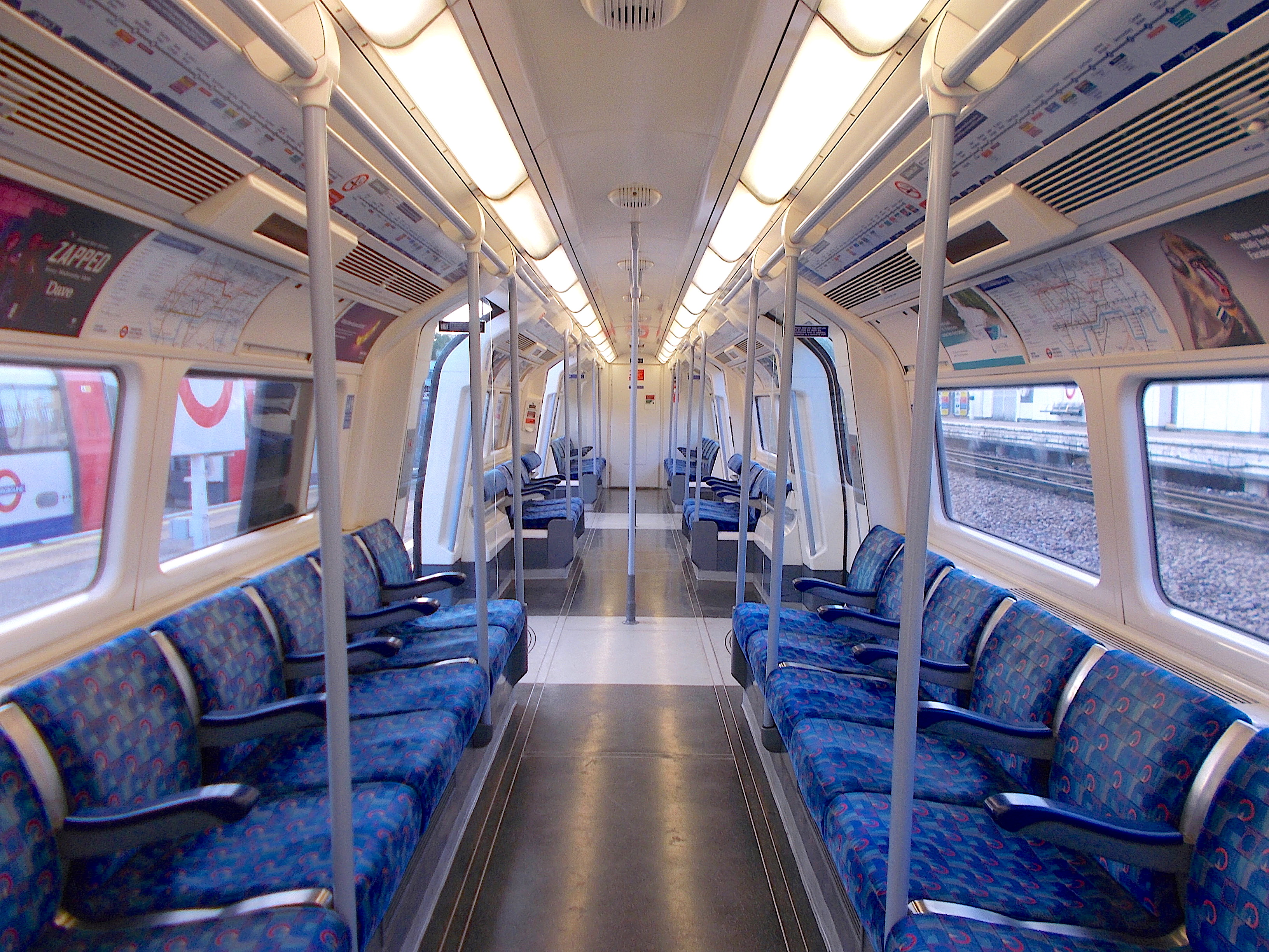 The refurbished interior of a Jubilee line 1996 Tube Stock DM vehicle